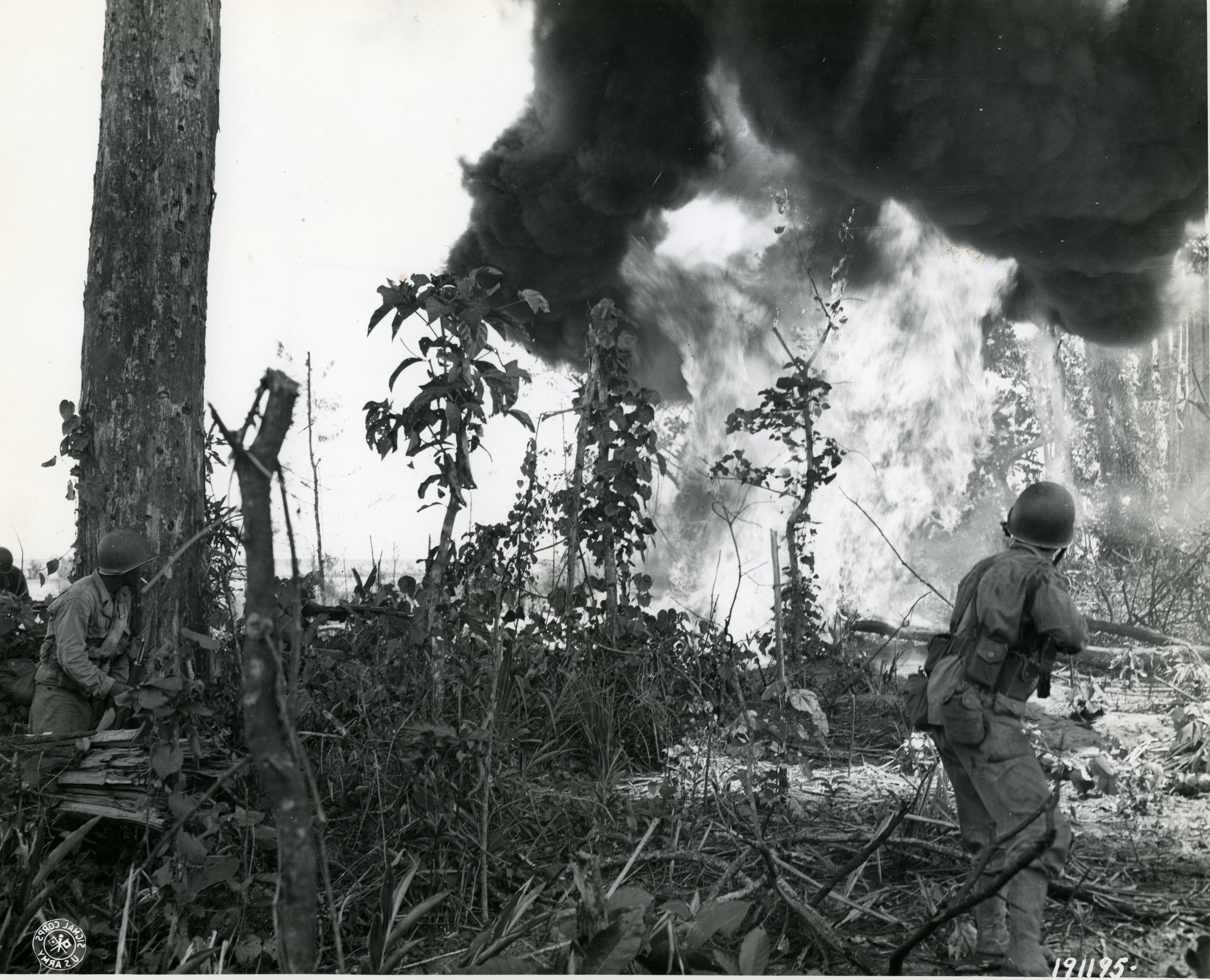 SC 191195-S A blasting flame from a deadly flame thrower and a Japanese pillbox goes up in smoke, as troops from the Americal division on Bouganville clean up Nip neste. 1944.